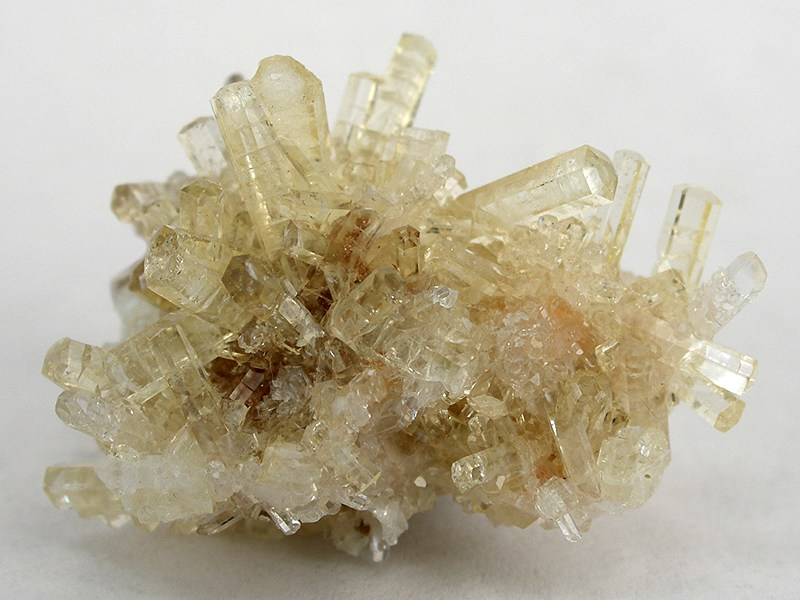 Thaumasite Locality: N'Chwaning II Mine, N'Chwaning Mines, Kuruman, Kalahari manganese fields, Northern Cape Province, South Africa (Locality at ) Size: miniature, 3.1 x 2.1 x 1.9 cm Thaumasite A fine specimen with gem crystals, on matrix, from a surprising and small find of late 2005. These are the best seen in 20 years, of this rare gem species related to ettringite and sturmanite. And, they happen to be beautiful. In person, there is more lustre.